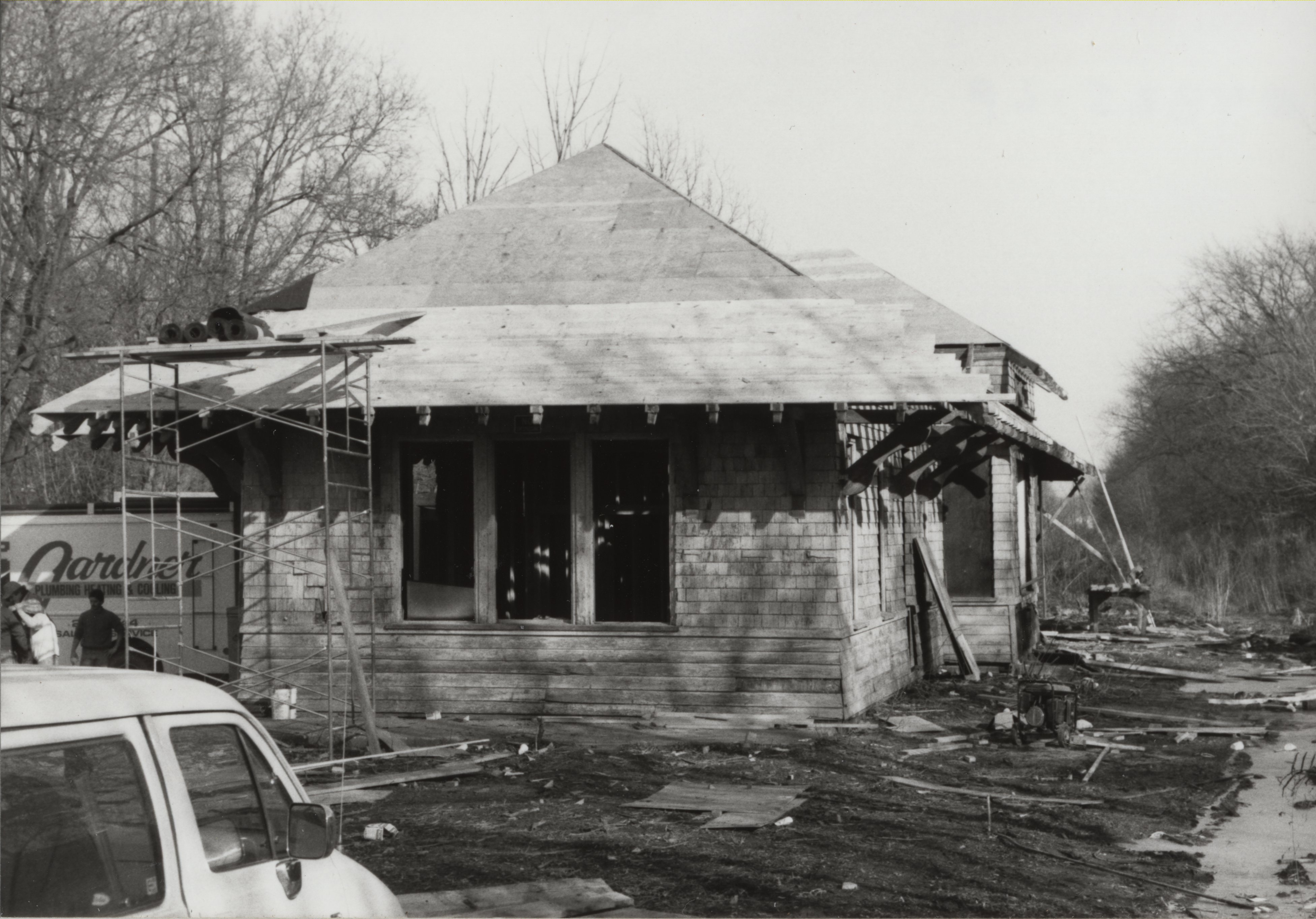 The railroad station in New Paltz, New York, undergoing a renovation in 1988.